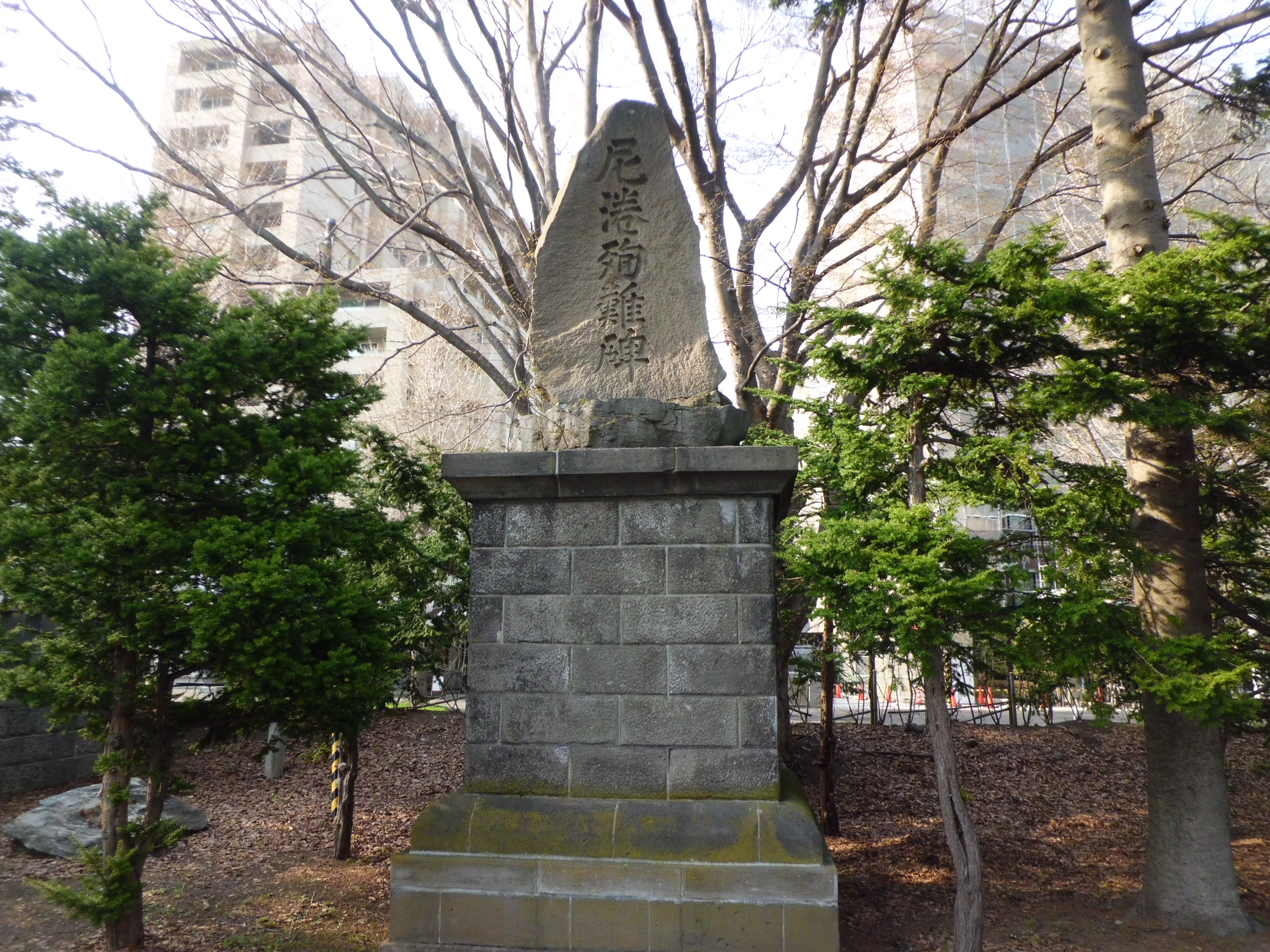 Monument to Nikolayevsk Incident at Shotokuen